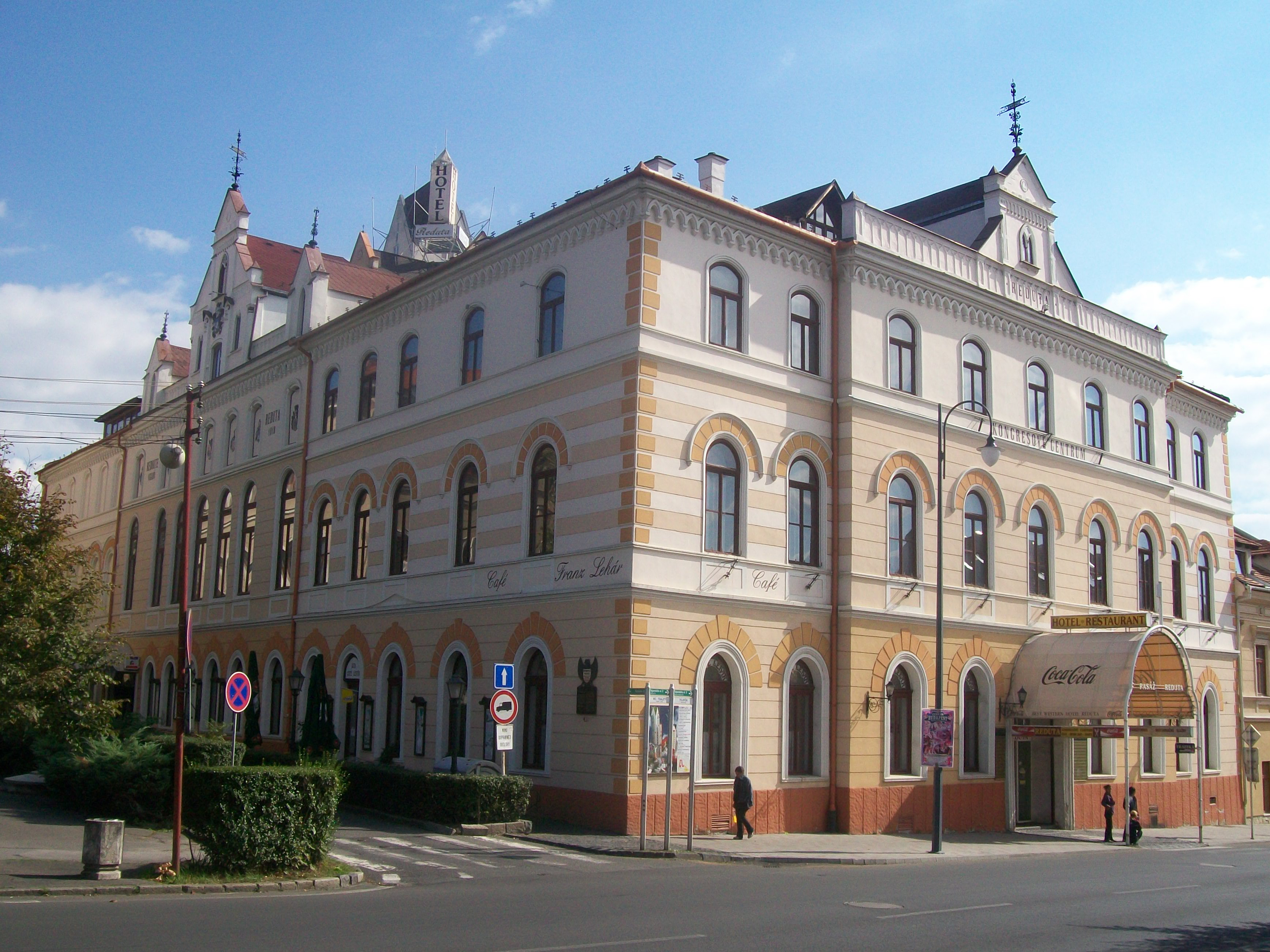 Hotel Reduta is one of the landmarks of town. Its historical roots date back to 1810, when the spaces served CasinoSlovenčina: Hotel Reduta je jednou z dominánt mesta Lučenec. Jeho historické korene siahajú do roku 1810, keď jeho priestory slúžili kasínu.